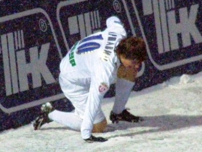 Andrei Arshavin in action for FC Zenit St.Petersburg